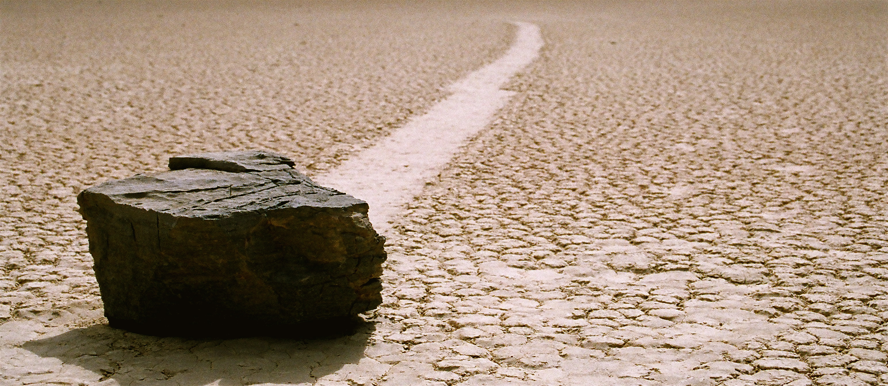 The Racetrack in Death Valley, Ca, a scientific phenomena, no one is sure how these rocks move